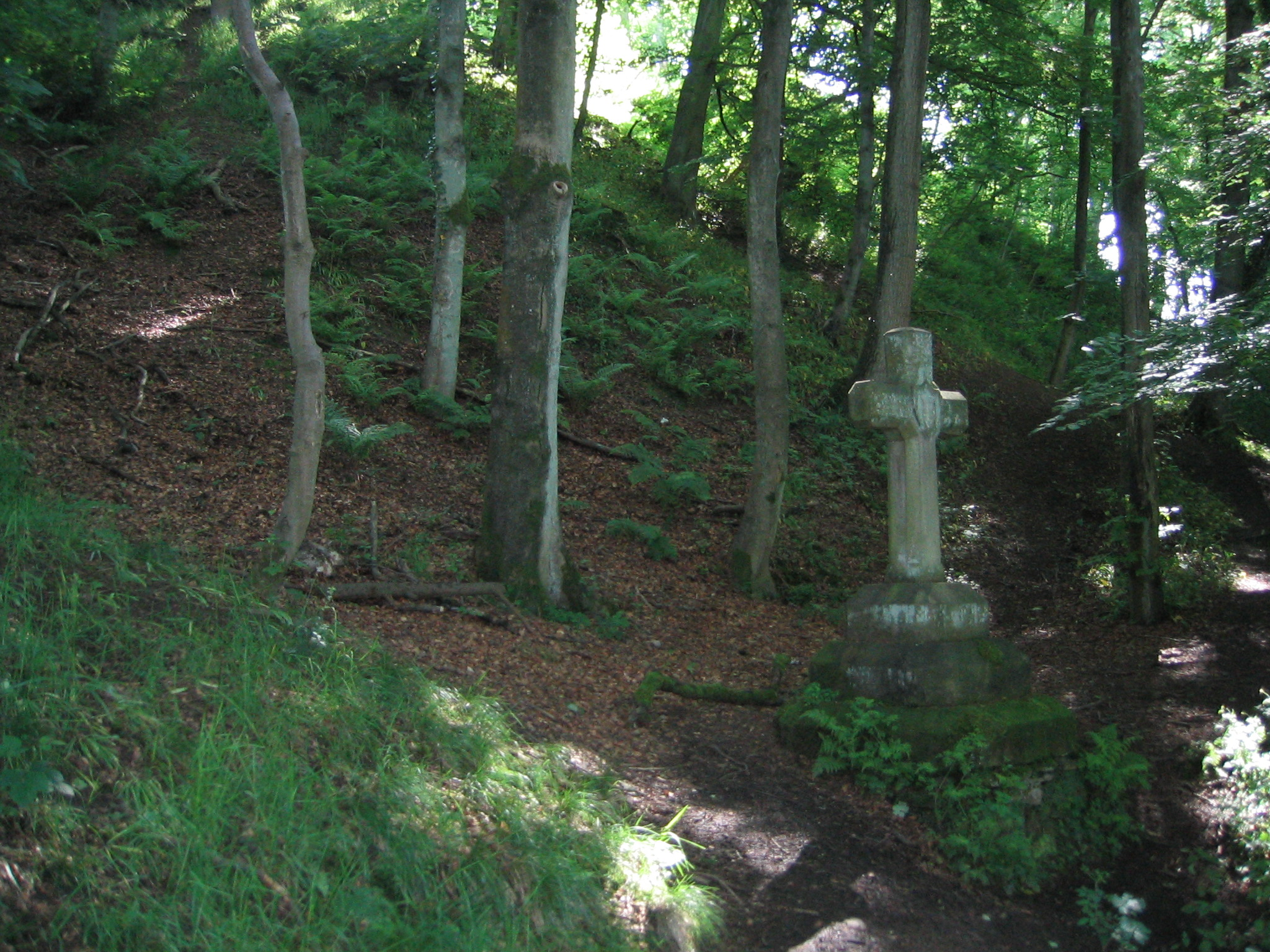 Memorial, Hodder Woods, Stonyhurst